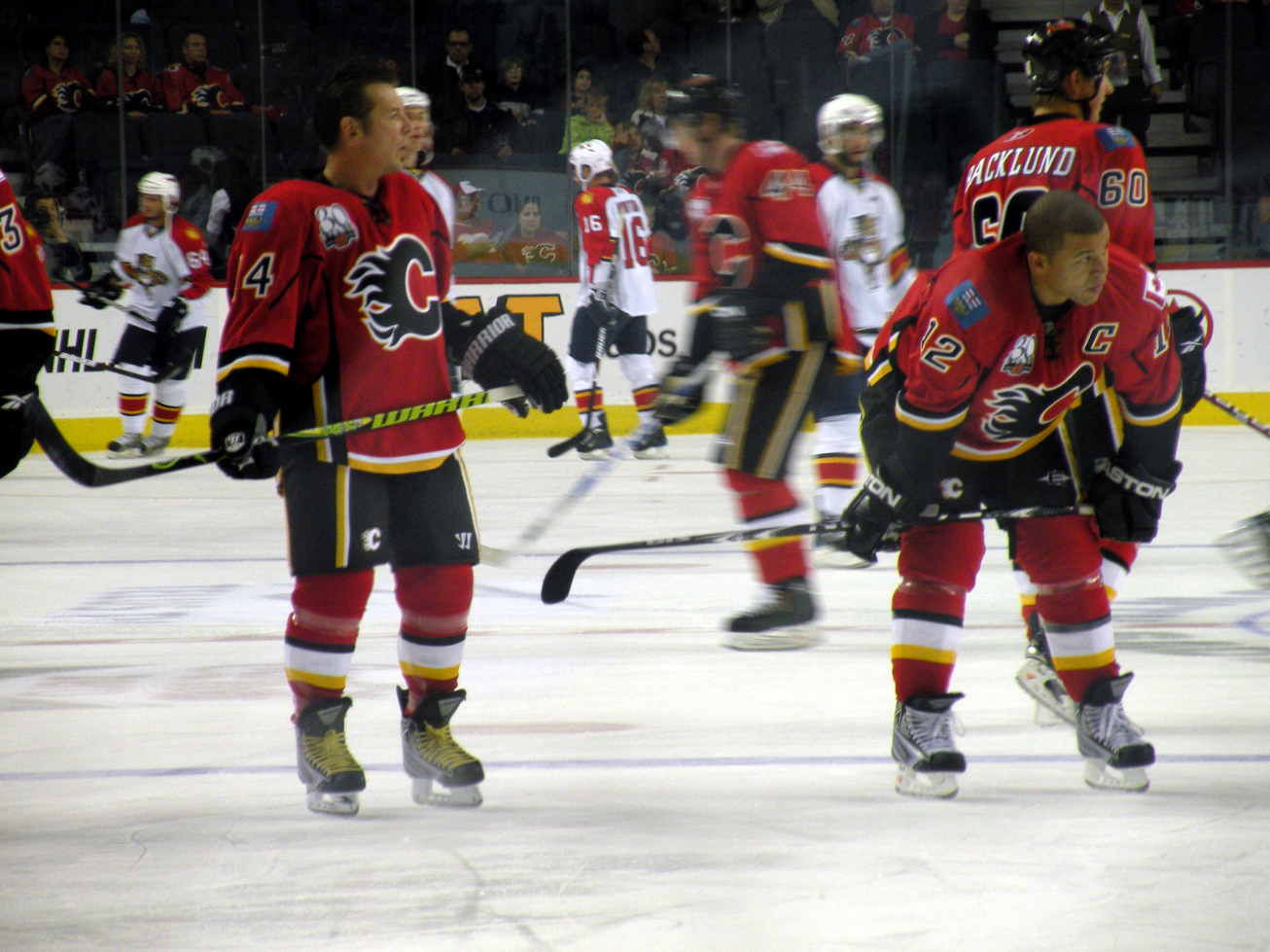 Calgary Flames forwards Theoren Fleury (14) and Jarome Iginla (12) stand beside each other prior to a National Hockey League exhibition game against the Florida Panthers, in Calgary.